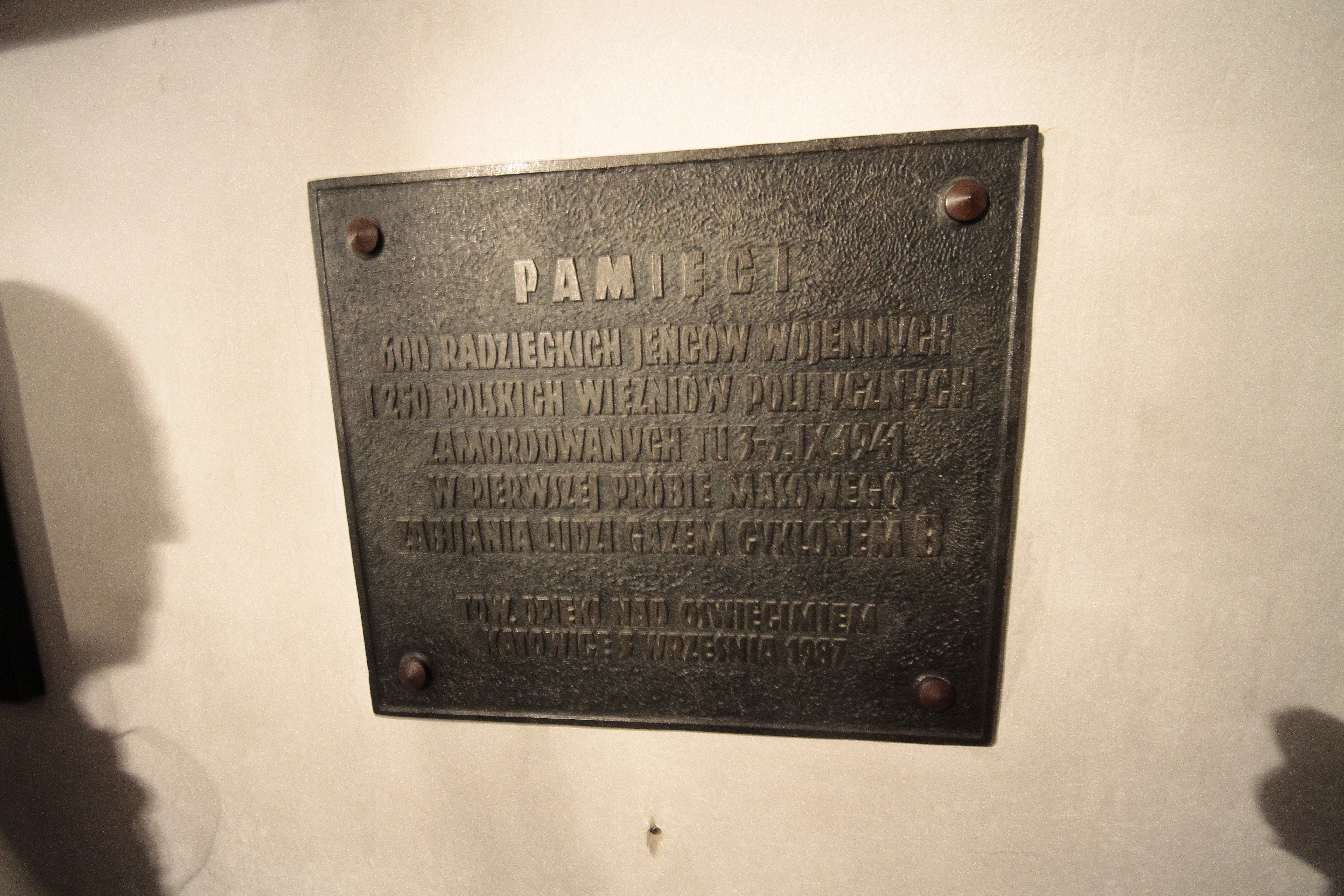 Plaque in Auschwitz (in the basement)